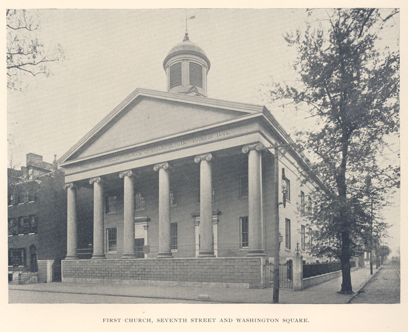 This was the second building used by the First Presbyterian Church of Philadelphia. It was located at the intersection of Seventh Street and Washington Square. It has since been demolished.